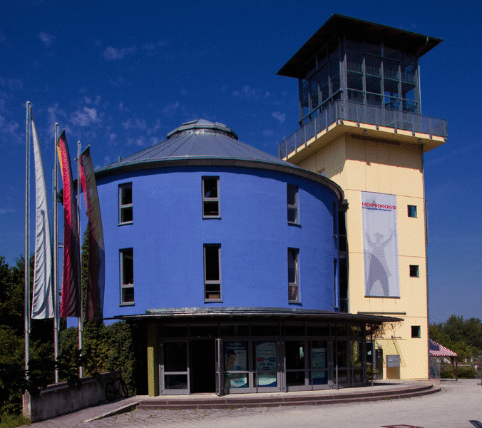 UAM study building Neumarkt